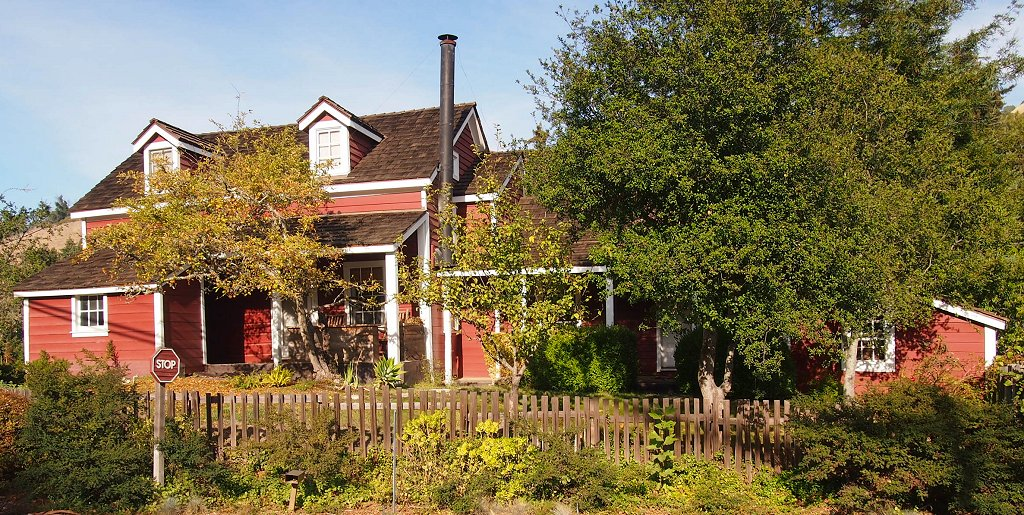 Joseph W. Post House (now a spa within the Ventana Inn resort), California Highway 1 & Coast Ridge Rd., California, USA. Viewed from the southwest.